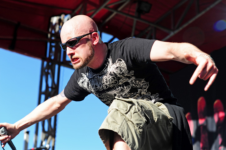 Soundwave Festival 2010